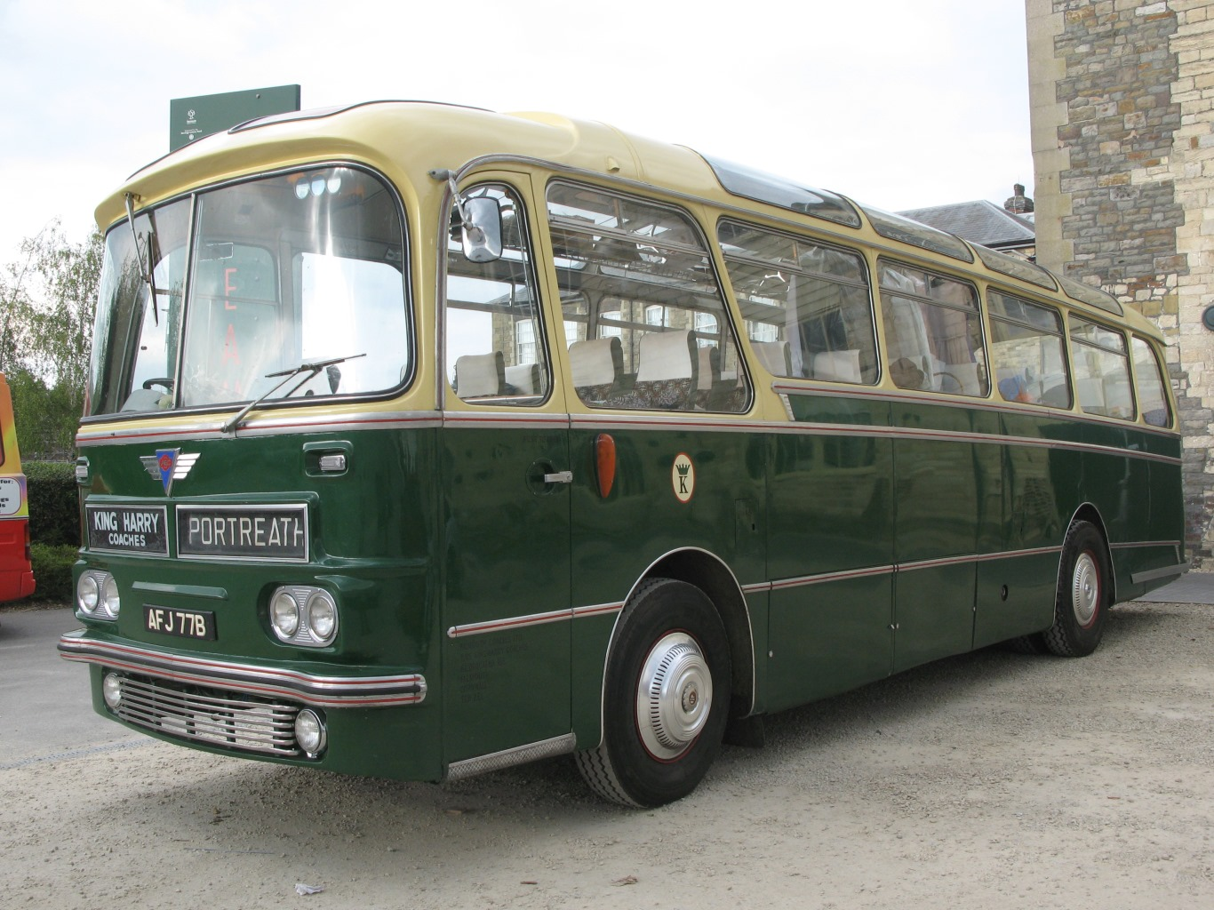 AFB77B, an AEC-powered Harrington Cavalier in the heritage King Harry Coaches fleet, waits for its passengers outside the Steam Museum in Swindon.